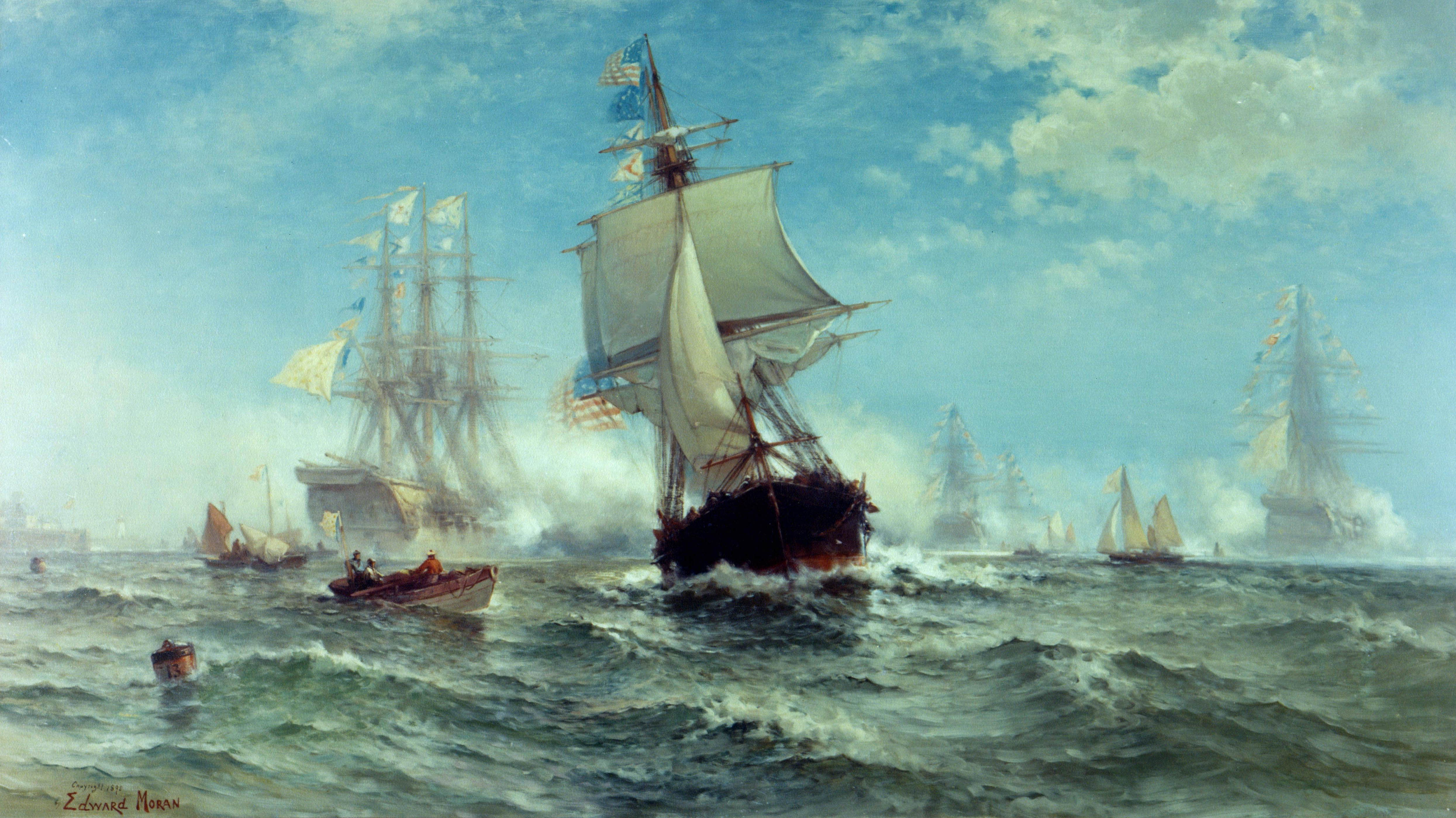 Photo #: 80-G-K-21225 (color) "First Recognition of the American Flag by a Foreign Government", 14 February 1778 Painting in oils by Edward Moran, 1898. It depicts the Continental Navy Ship Ranger, commanded by Captain John Paul Jones, receiving the salute of a French squadron under La Motte Picquet, with his flag on Robuste (1758), at Quiberon Bay, France, 14 February 1778. Earlier in the month, after receipt of news of the victory at Saratoga, France recognized the independence of the American colonies and signed a treaty of alliance with them. The original painting is in the U.S. Naval Academy Museum, Annapolis, Maryland. Official U.S. Navy Photograph, now in the collections of the National Archives.